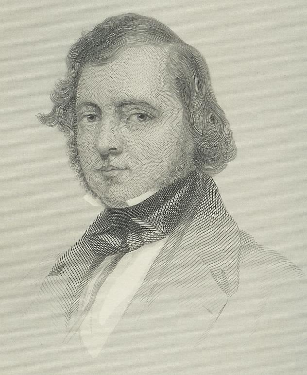 Cropped version of a scan from 1858 book "cyclopedia of Wit and Humor" edited by William E. Burton. Complete scan posted by User:Kevin Bryant "with permission from Kevin Bryant - " (although permission was not required). Both book & photo in public domain.